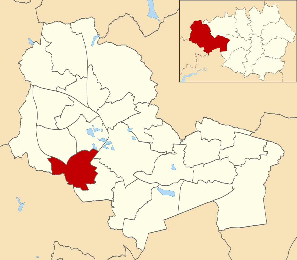 Map showing the location of Bryn ward within Wigan Metropolitan Borough Council